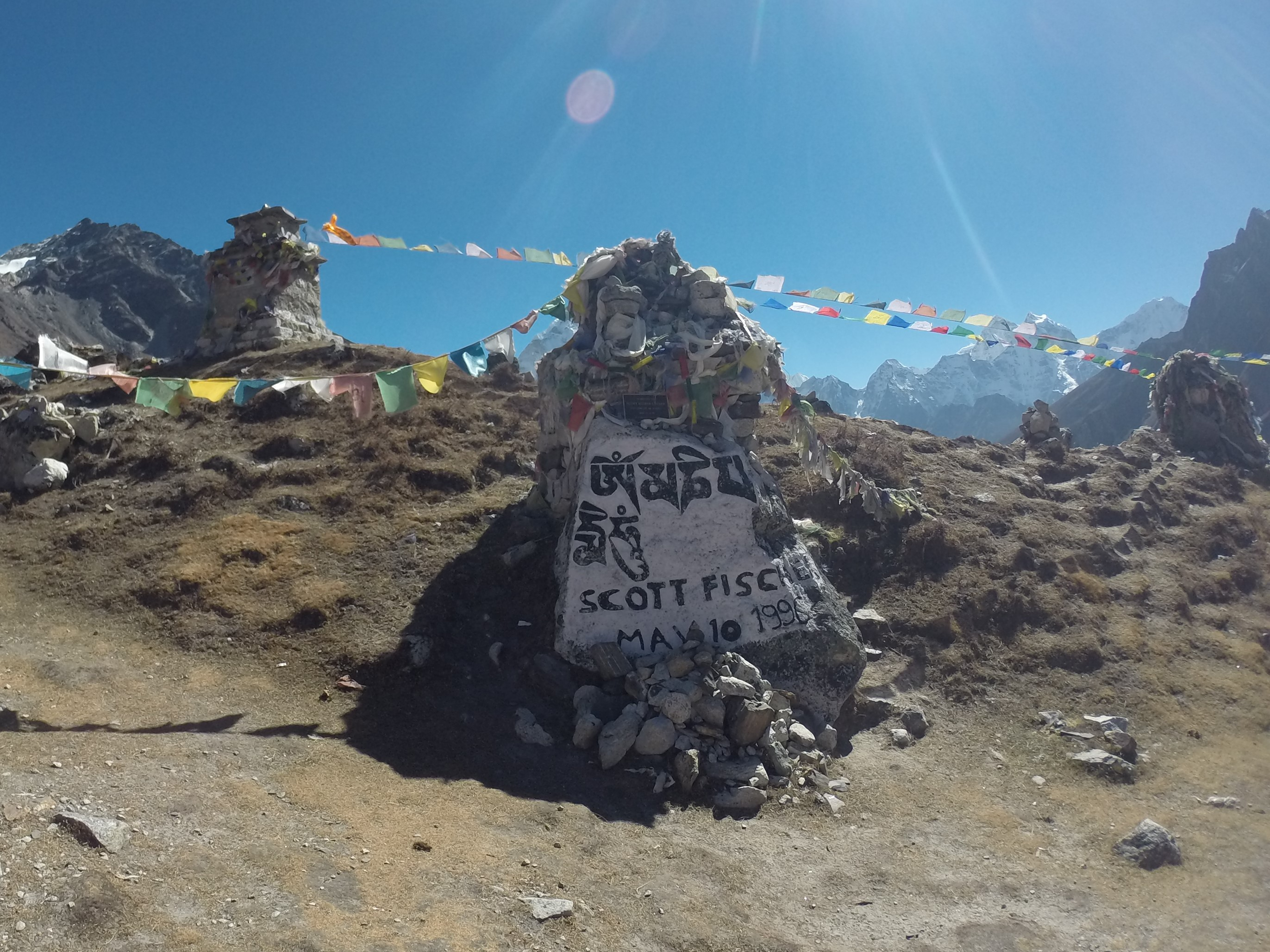 This memorial to Scott Fisher resides on an open plateau outside the village of Dughla in the Khumbu Valley a days walk from Everest Base Camp